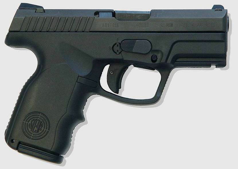 Steyr M-A1 semi-automatic pistol.